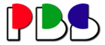 Official logo of Philippine Broadcasting Service from the 1990s to 2017.